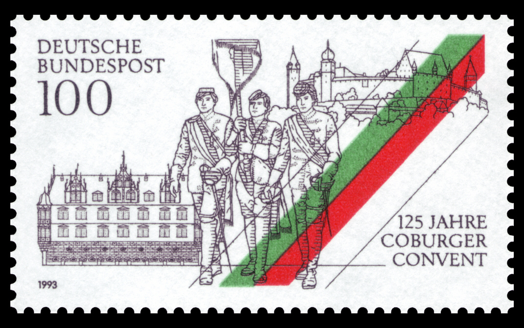 125 years of Coburger Convent